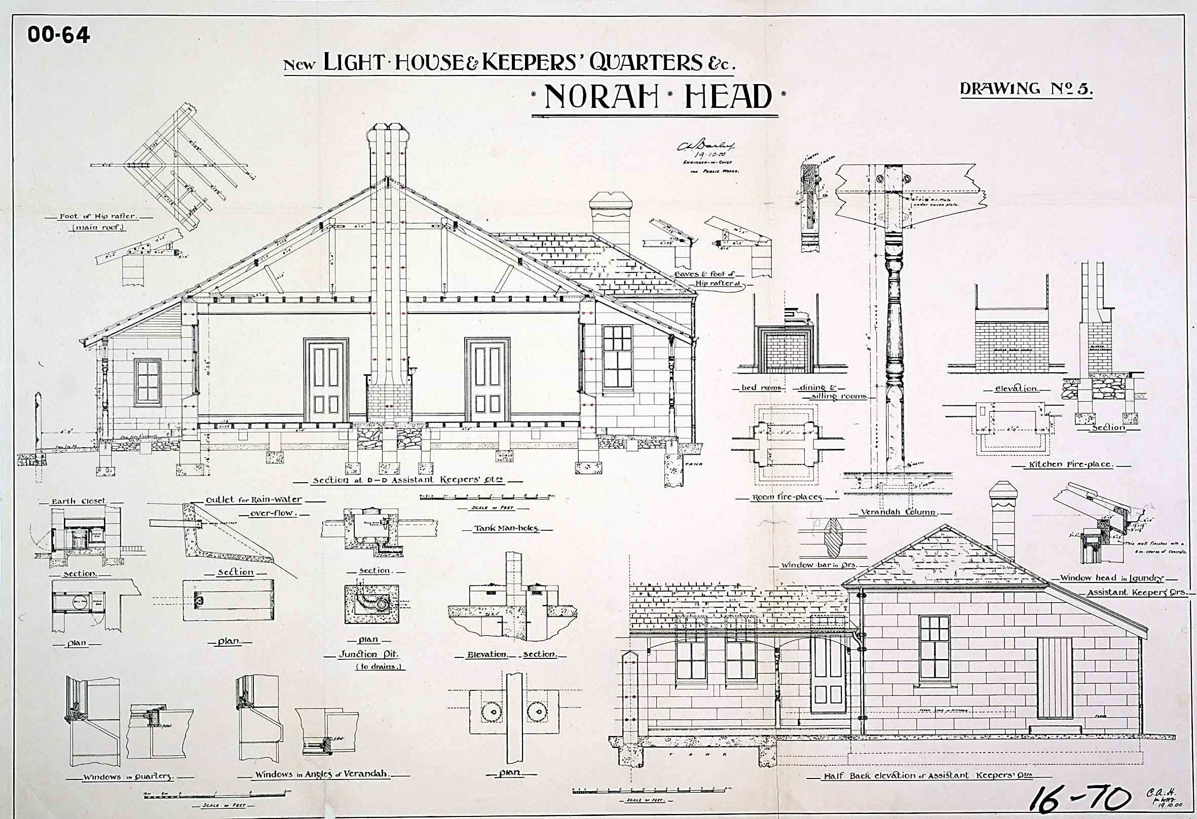 Norah Head Light. Keepers quarters plans, 1900